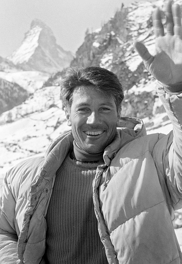 Italian climber Walter Bonatti looking pleased while greeting after his winter solo ascent on the North wall of Monte Cervino. Zermatt, 1965.